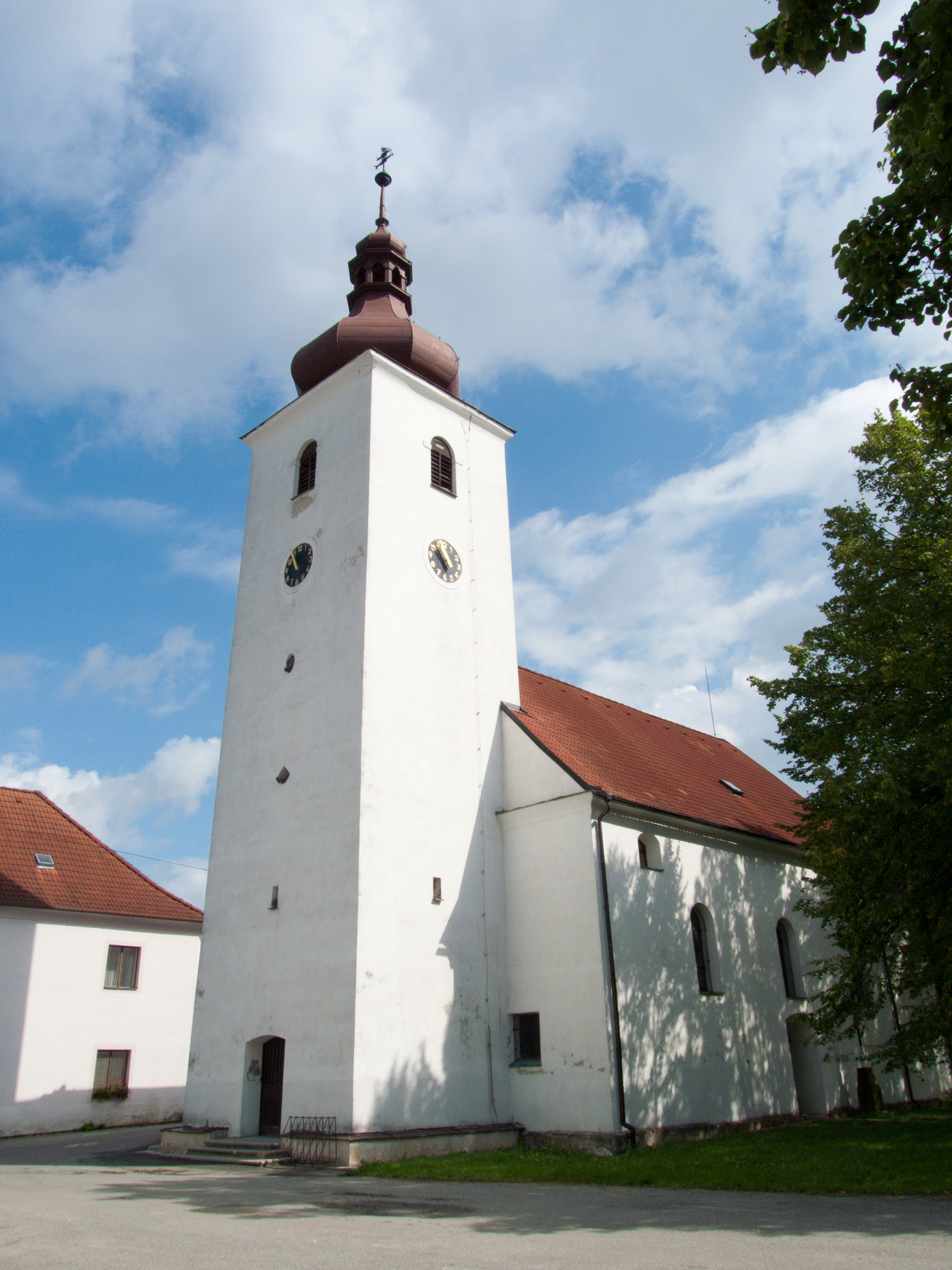 Saint Adalbert of Prague Church in the village of Ratibořské Hory, Tábor District, Czech Republic as seen from the south